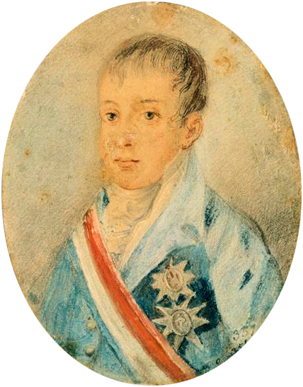 Emperor Dom Pedro I of Brazil (and King Dom Pedro IV of Portugal) around age 11, c.1809